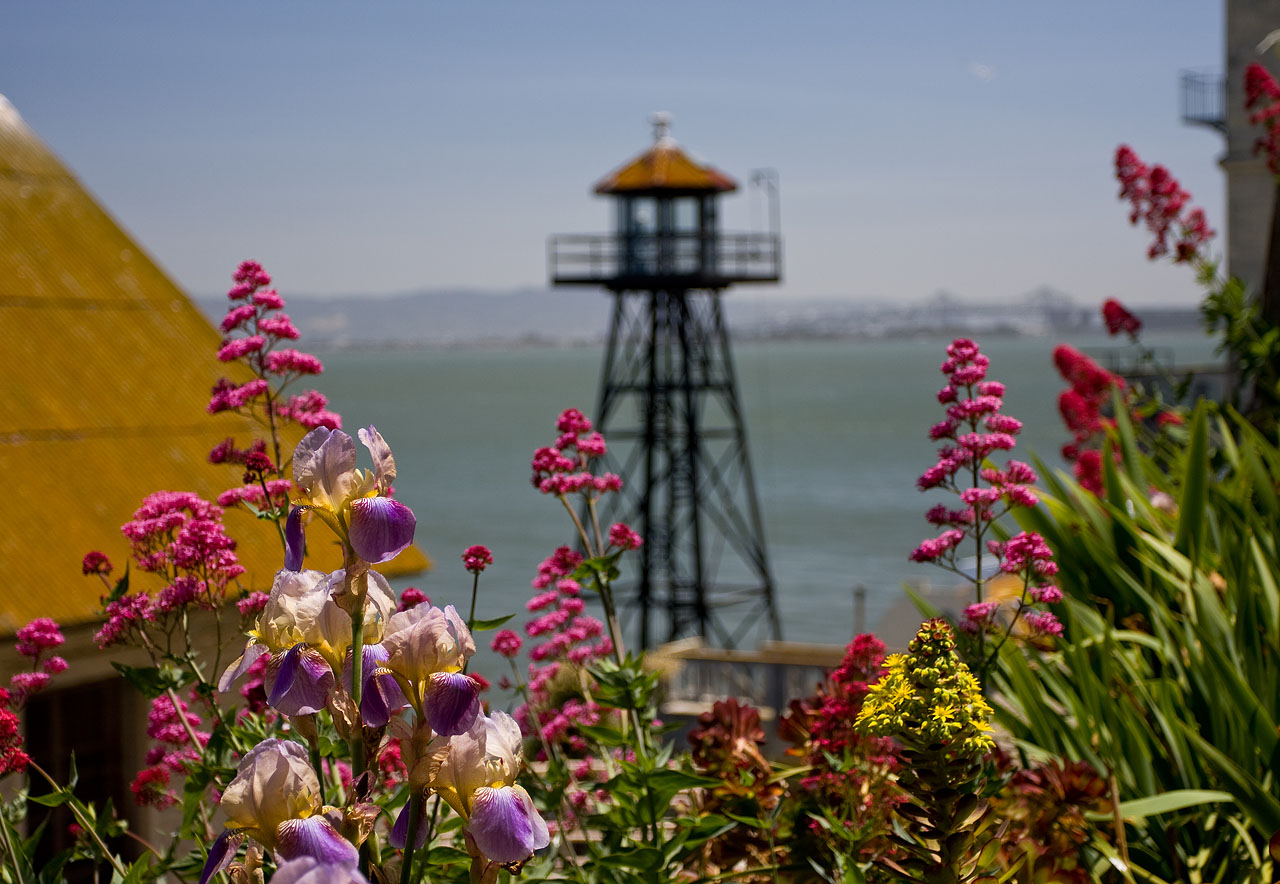 Alcatraz Island outside San Francisco, USA.